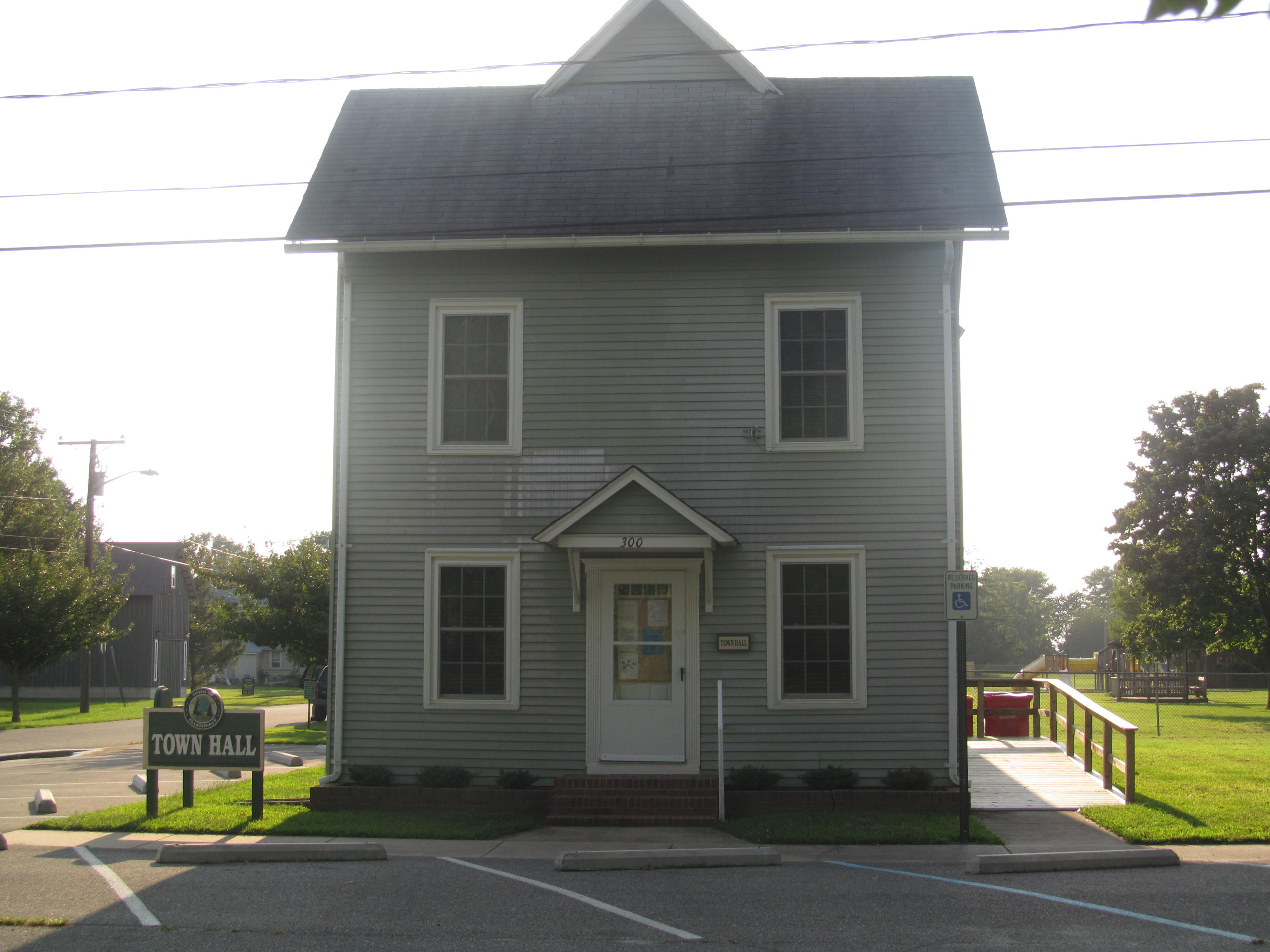 The Ellendale Town Hall located at the corner of Willow Street & McCaulley Avenue. The town police station is located on the 2nd floor.